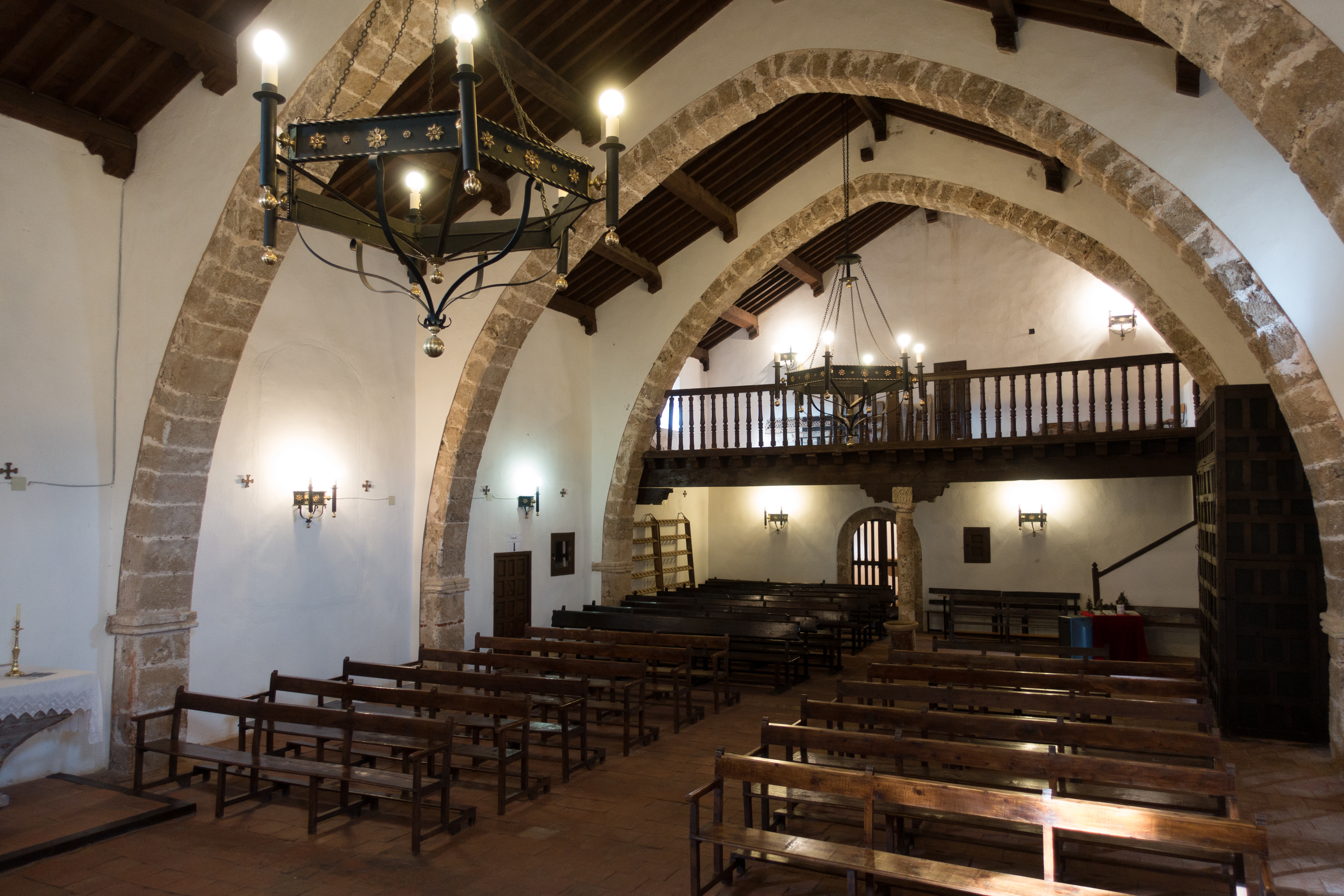 Parish Church of Riópar Viejo in Albacete, Spain.